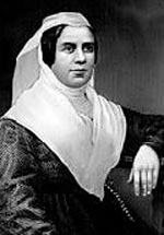 Enrichetta Caracciolo (1821-1901)